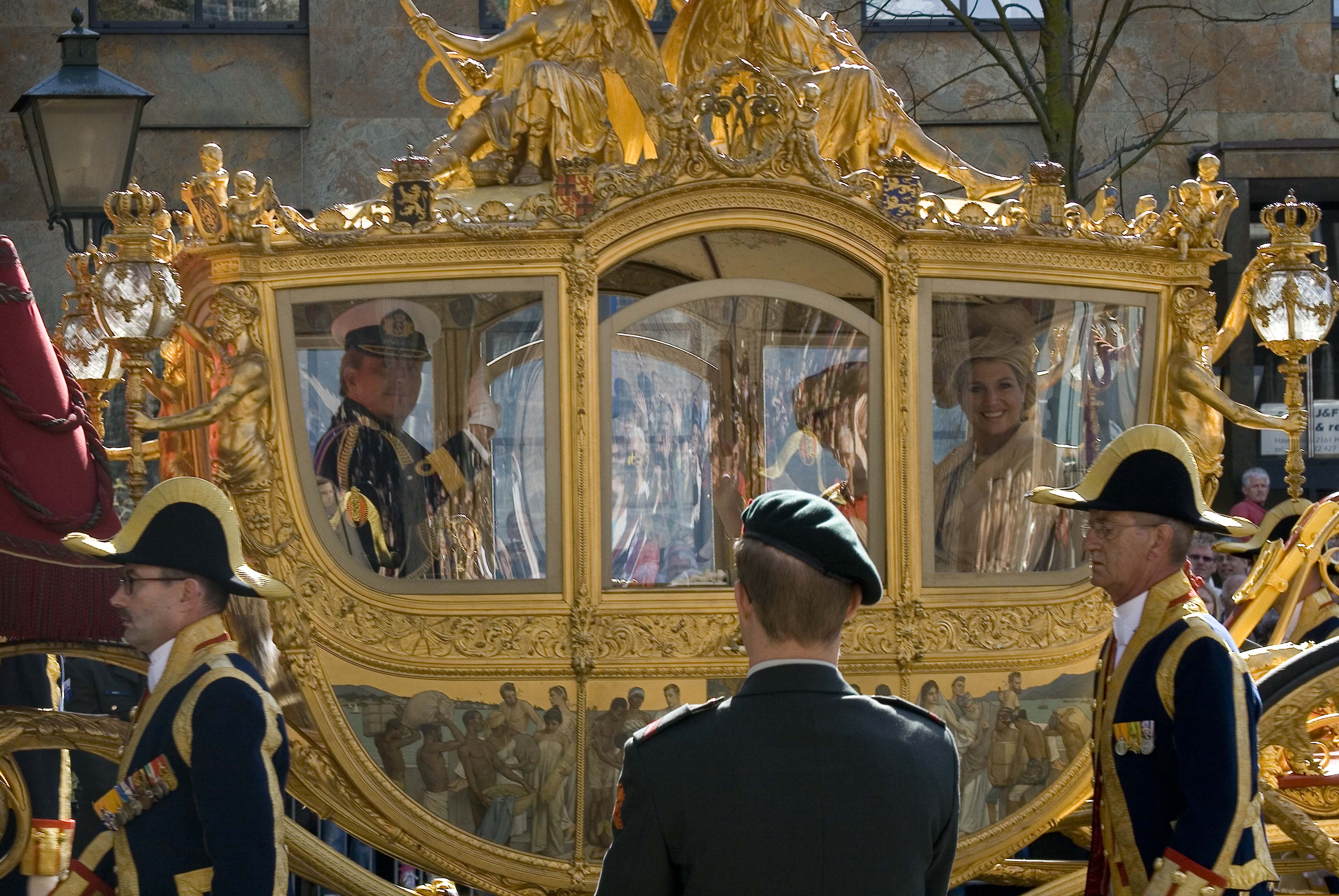 William-Alexander, Máxima and Beatrix in the golden carriage.